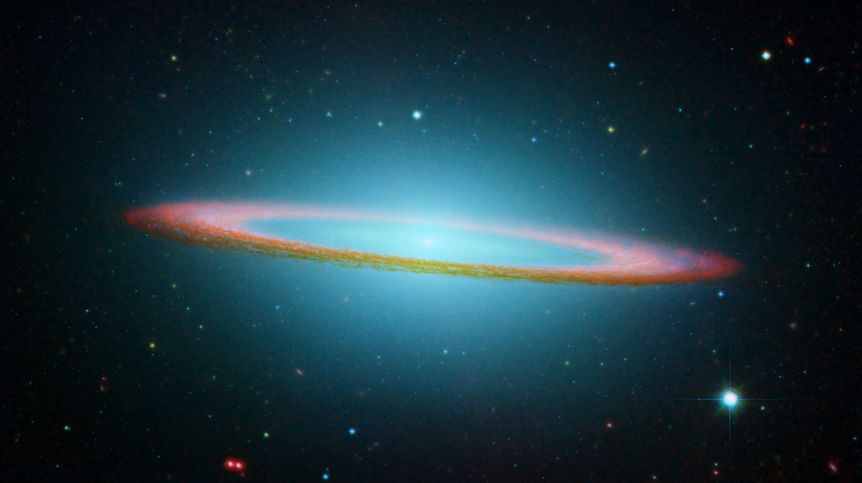 NASA/ESA Hubble Space Telescope and NASA's Spitzer Space Telescope joined forces to create this striking composite image of one of the most popular sights in the universe. Messier 104 is commonly known as the Sombrero galaxy because in visible light, it resembles the broad-brimmed Mexican hat. However, in Spitzer's striking infrared view, the galaxy looks more like a "bull's eye." Spitzer's full view shows the disk is warped, which is often the result of a gravitational encounter with another galaxy, and clumpy areas spotted in the far edges of the ring indicate young star-forming regions. The Sombrero galaxy is located some 28 million light-years away. Viewed from Earth, it is just six degrees south of its equatorial plane. Spitzer detected infrared emission not only from the ring, but from the center of the galaxy too, where there is a huge black hole, believed to be a billion times more massive than our Sun. The Spitzer picture is composed of four images taken at 3.6 (blue), 4.5 (green), 5.8 (orange), and 8.0 (red) microns. The contribution from starlight (measured at 3.6 microns) has been subtracted from the 5.8 and 8-micron images to enhance the visibility of the dust features.